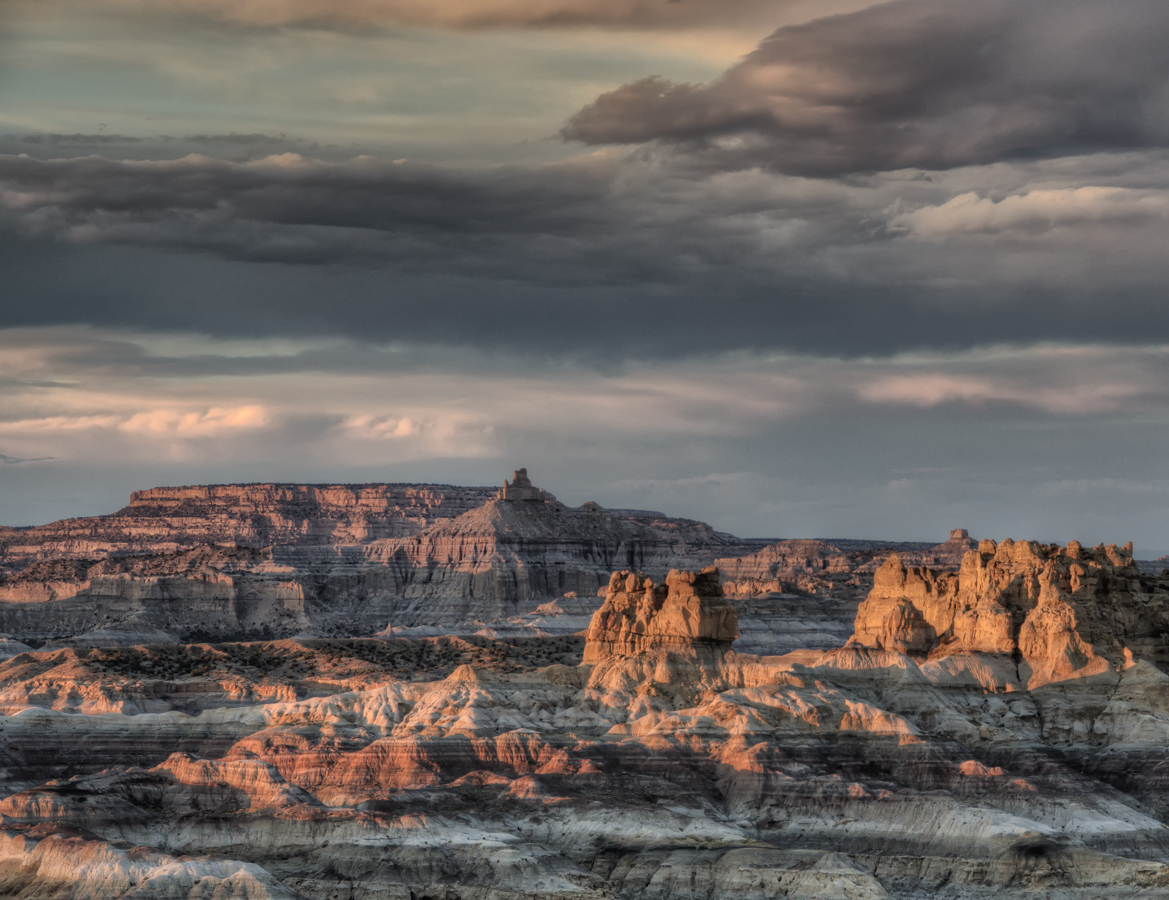 Angel Peak Scenic Area, Sunset yesterday. Located about 20 miles SSE of Bloomfield, NM.